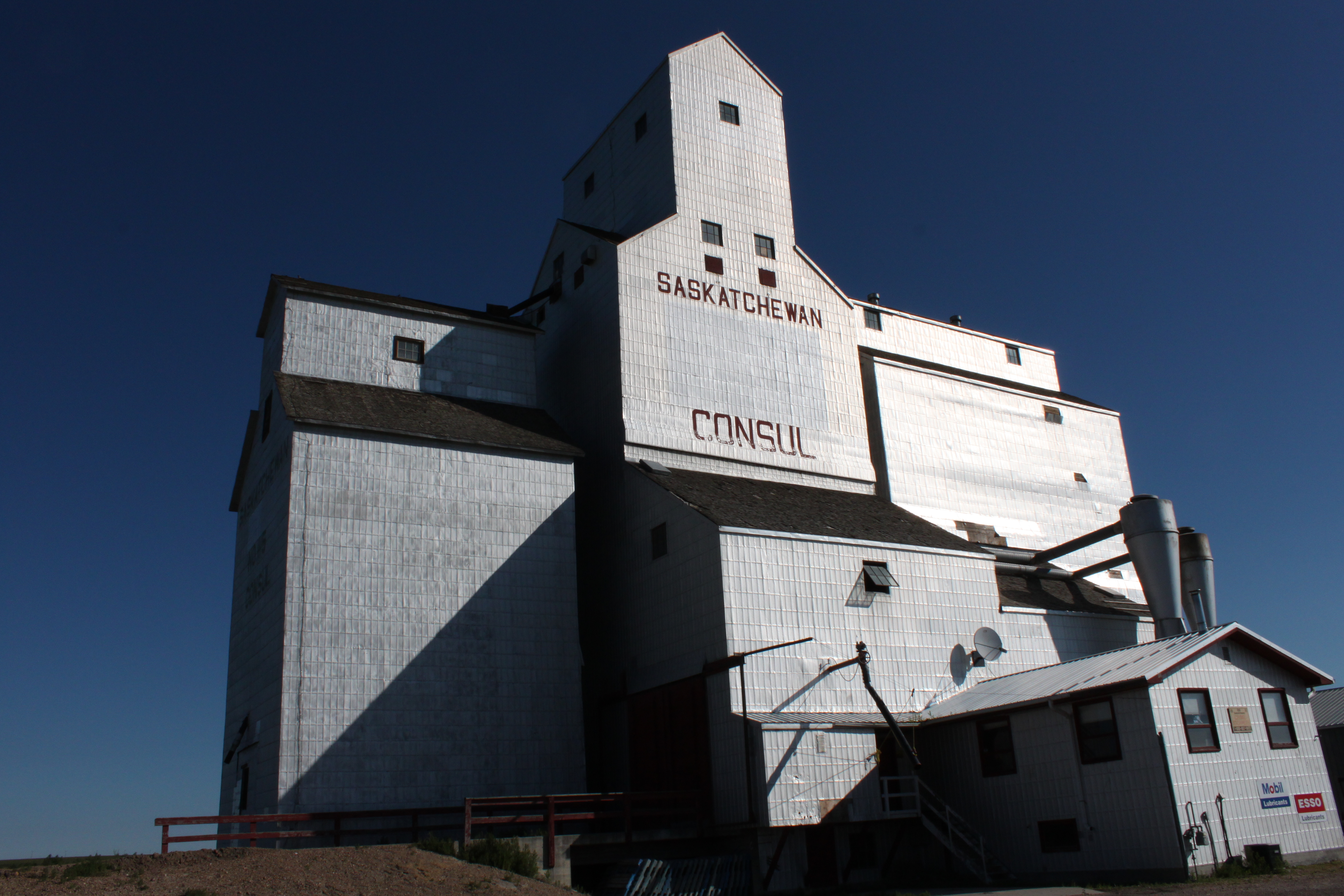 Consul